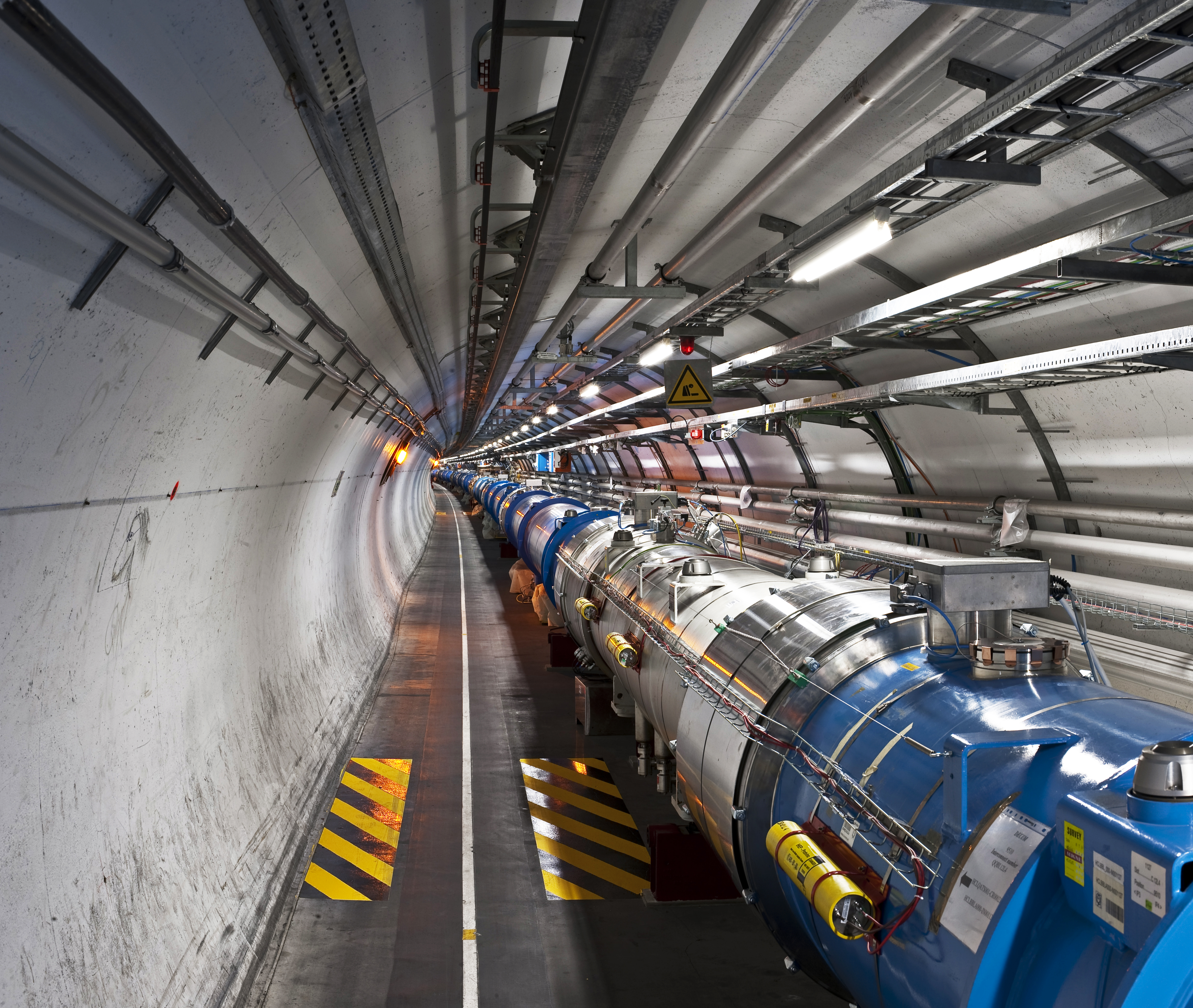 View of the LHC tunnel sector 3-4